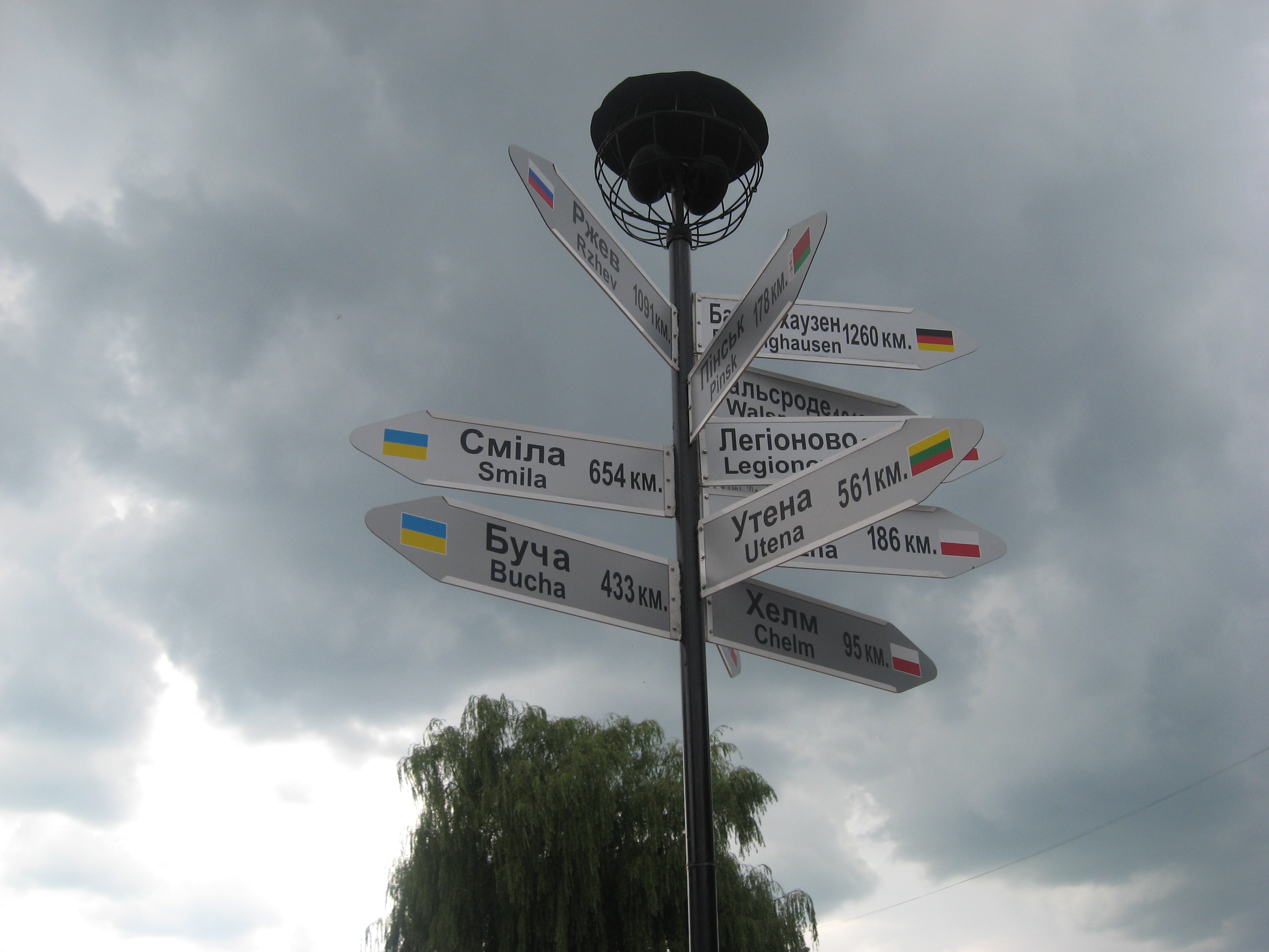 Sign in Kovel (Volyn oblast, Ukraine), showing the direction and distance to all the sister cities